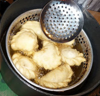 New Mexico style sweetmeat empanadas frying in lard.